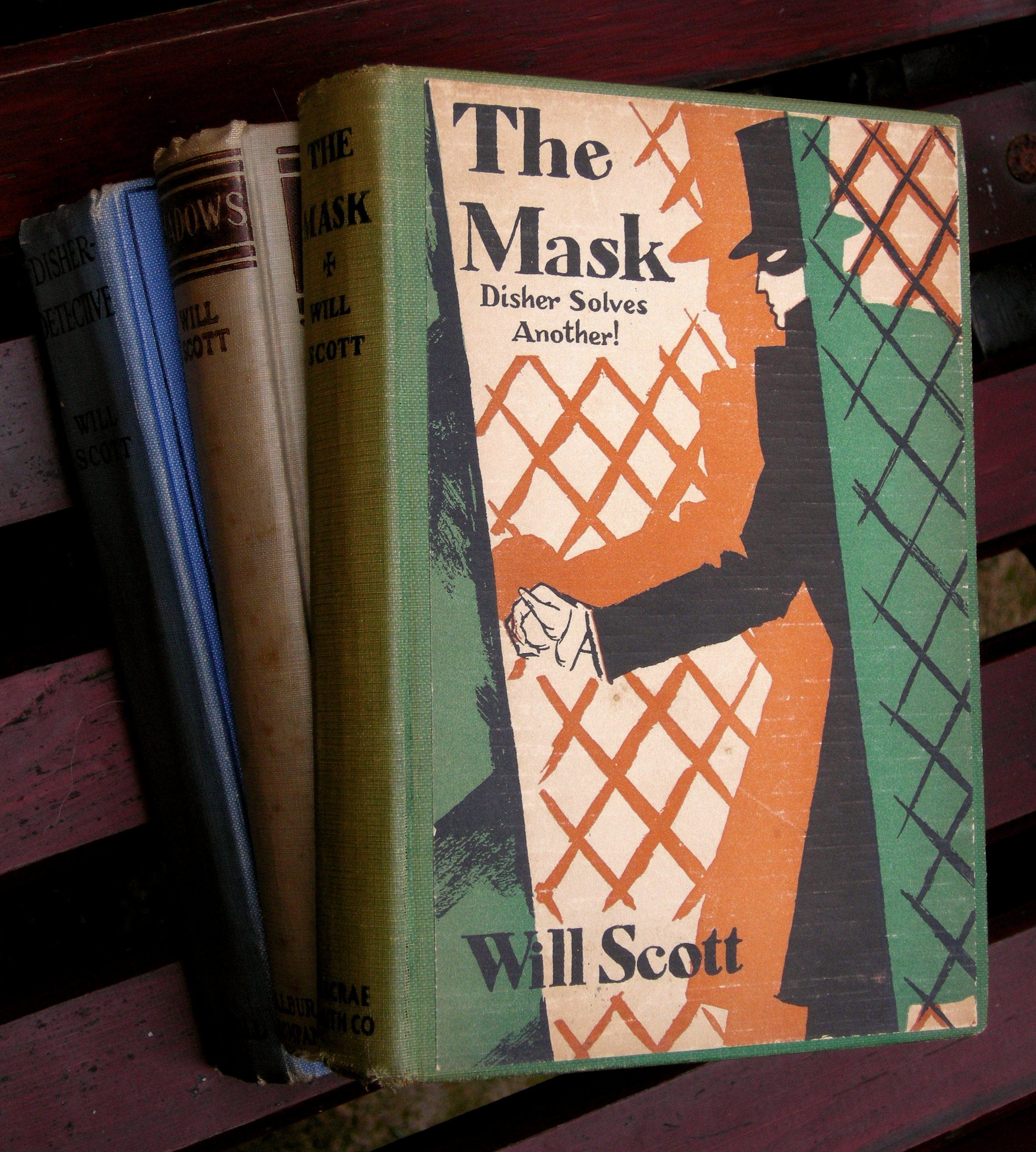 Disher, Detective (1925), Shadows (1928) and Mask (1929) by Will Scott. All photographed as hardbacks without dustjackets.